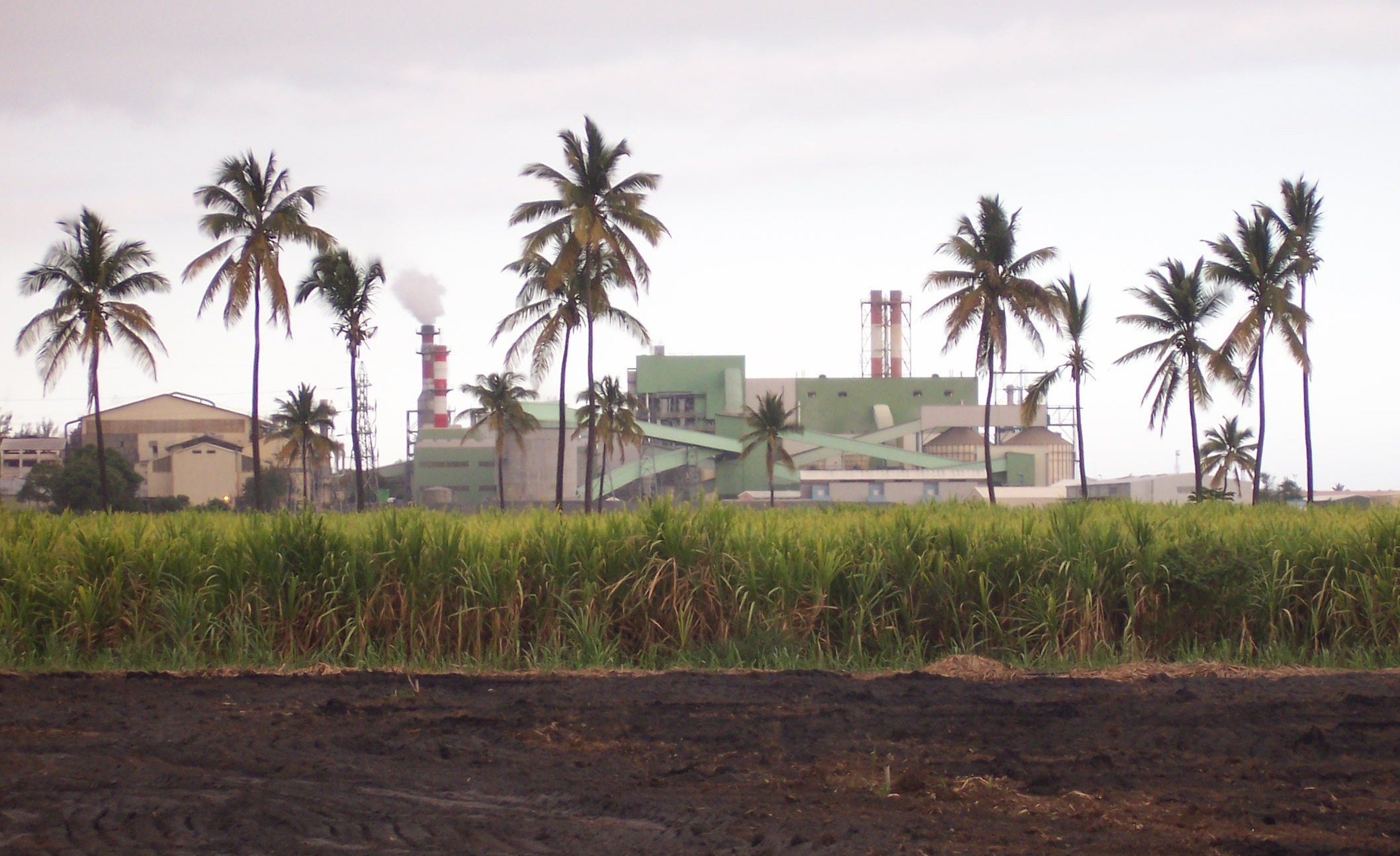 the sugarcane factory and the cogeneration bagasse/coal power plant of Gol (Saint-Louis, Réunion island